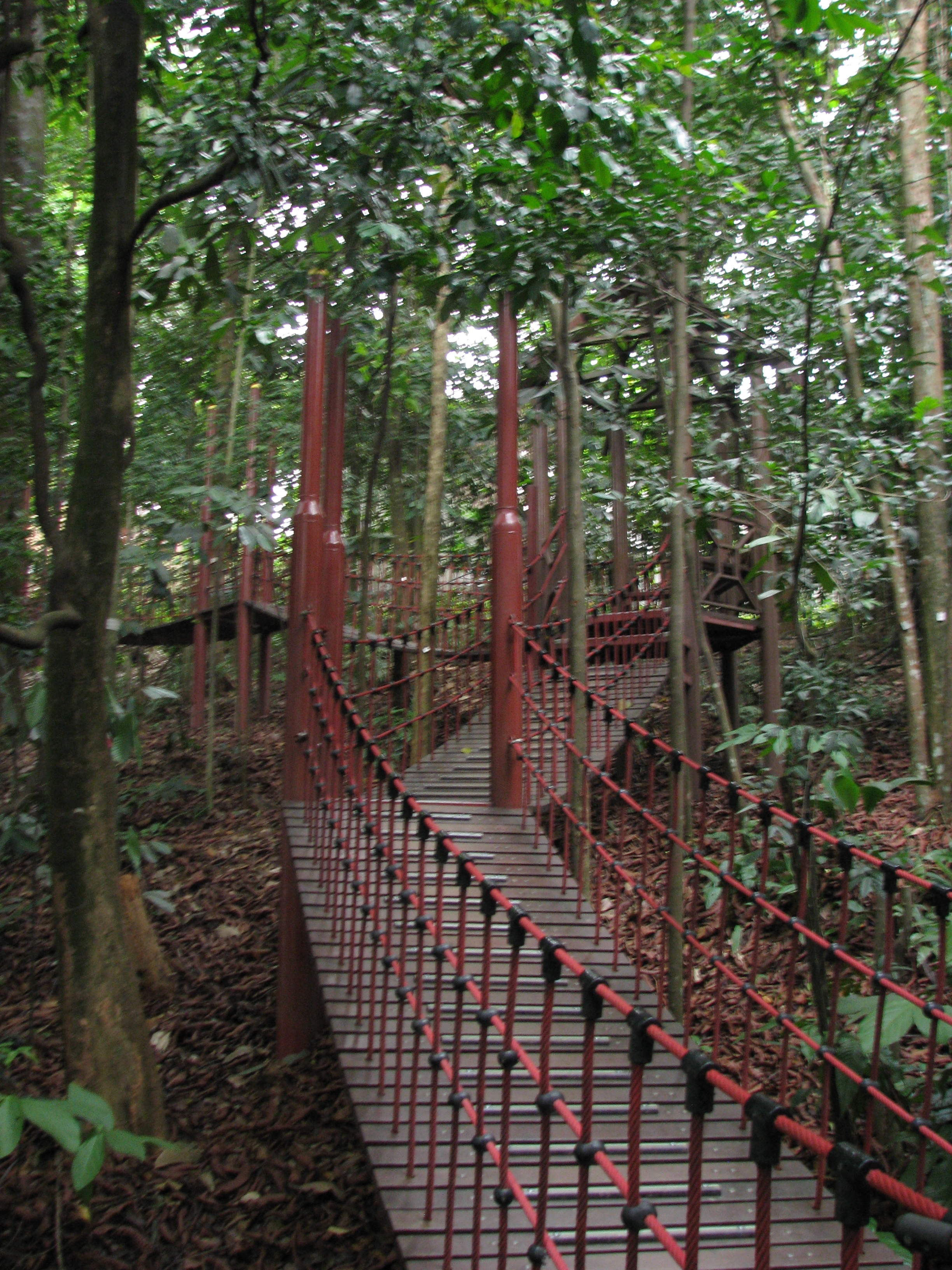 A tiny bit of jungle within the city, Bukit Nanas Forest Reserve is a nice walk and break from the traffic and noise and includes this cool short suspension bridge.